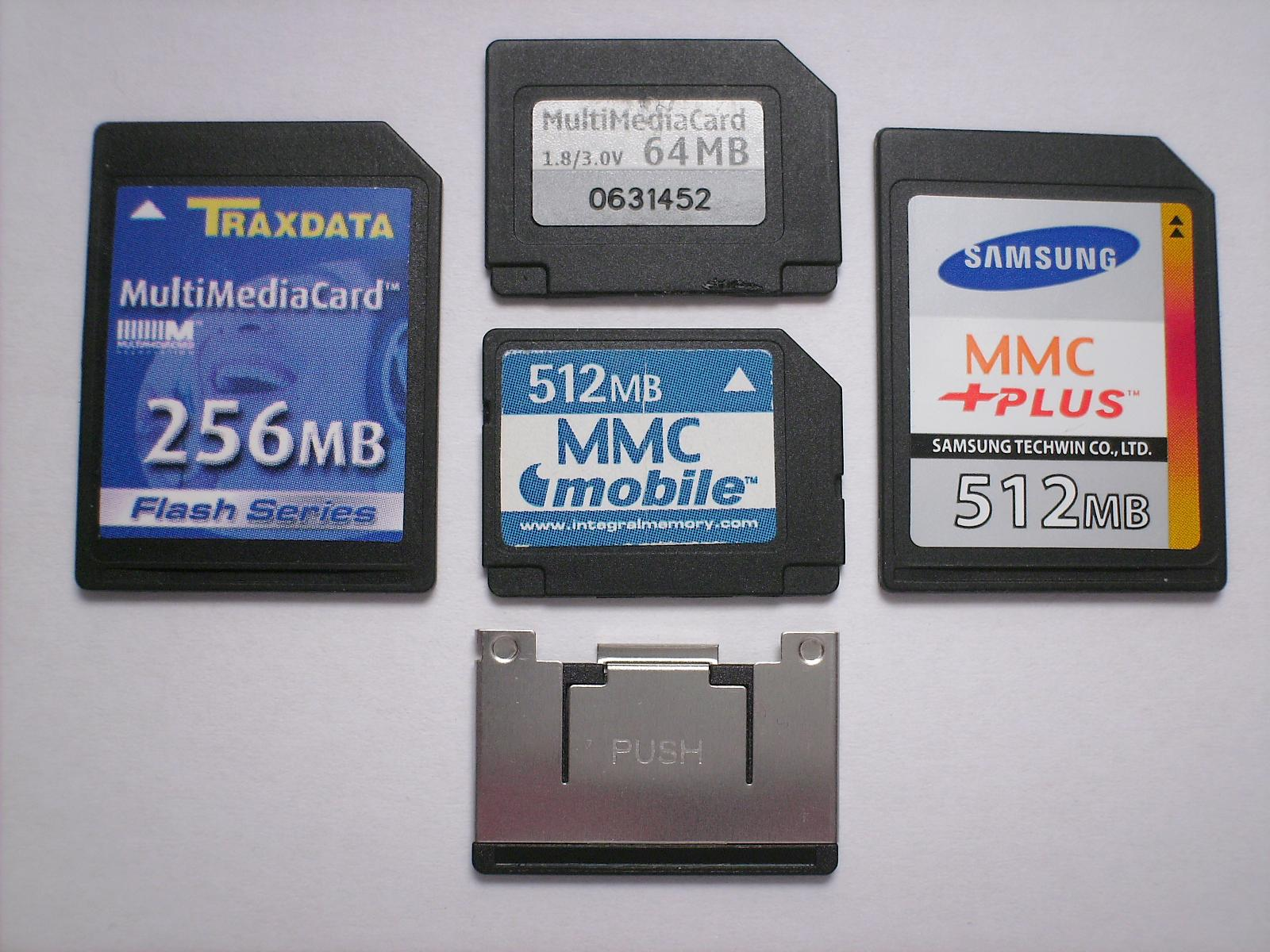 Front of four types of MMC card, clockwise from left: MMC, RS-MMC, MMCplus, MMCmobile. Below them is a metal mechanical adaptor to use half-size cards in full-size slots.